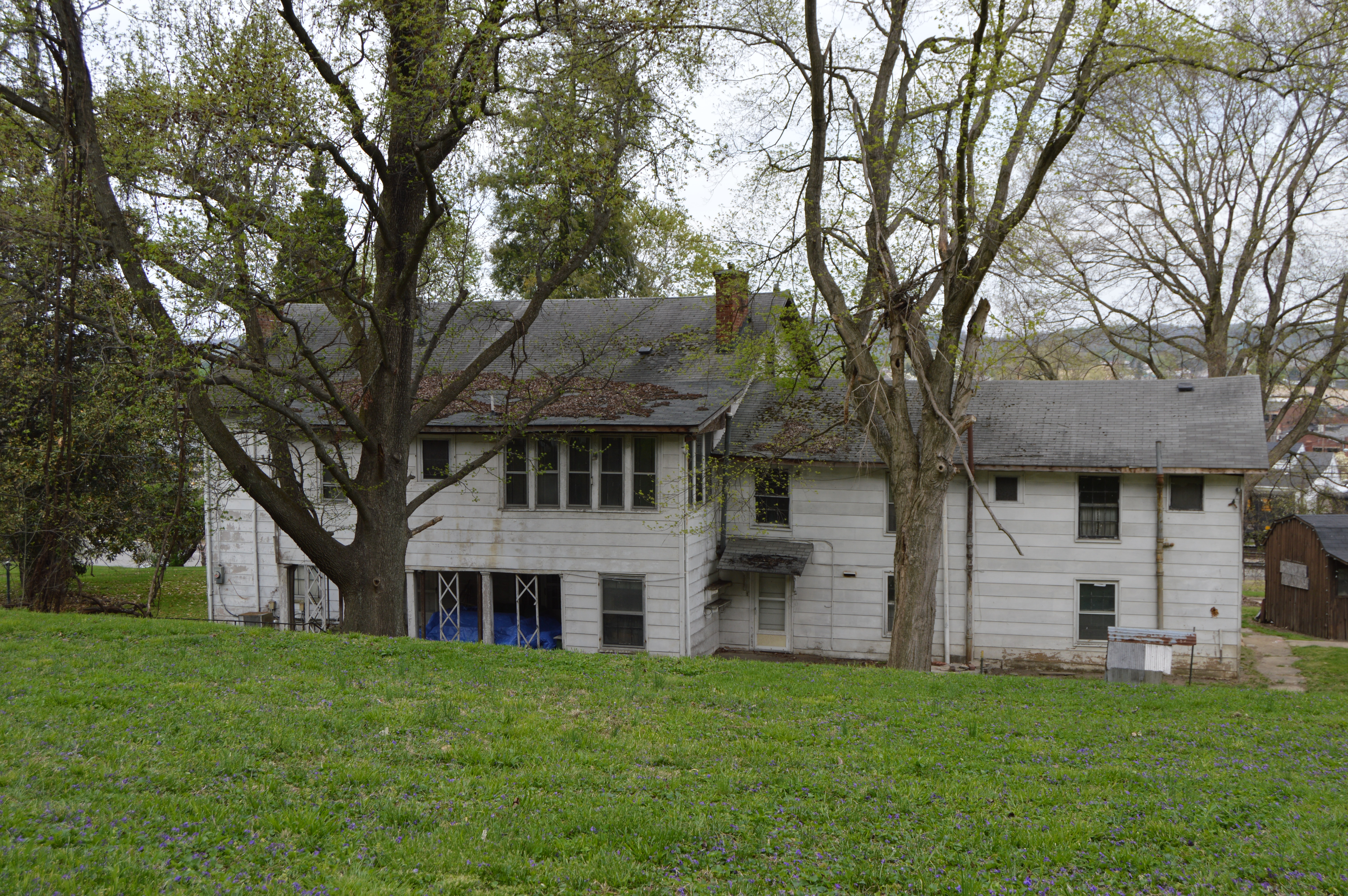 Western side of the Catlett House, overlooking U.S. Routes 23/60 in Catlettsburg, Kentucky, United States. Built in 1812, it is listed on the National Register of Historic Places.